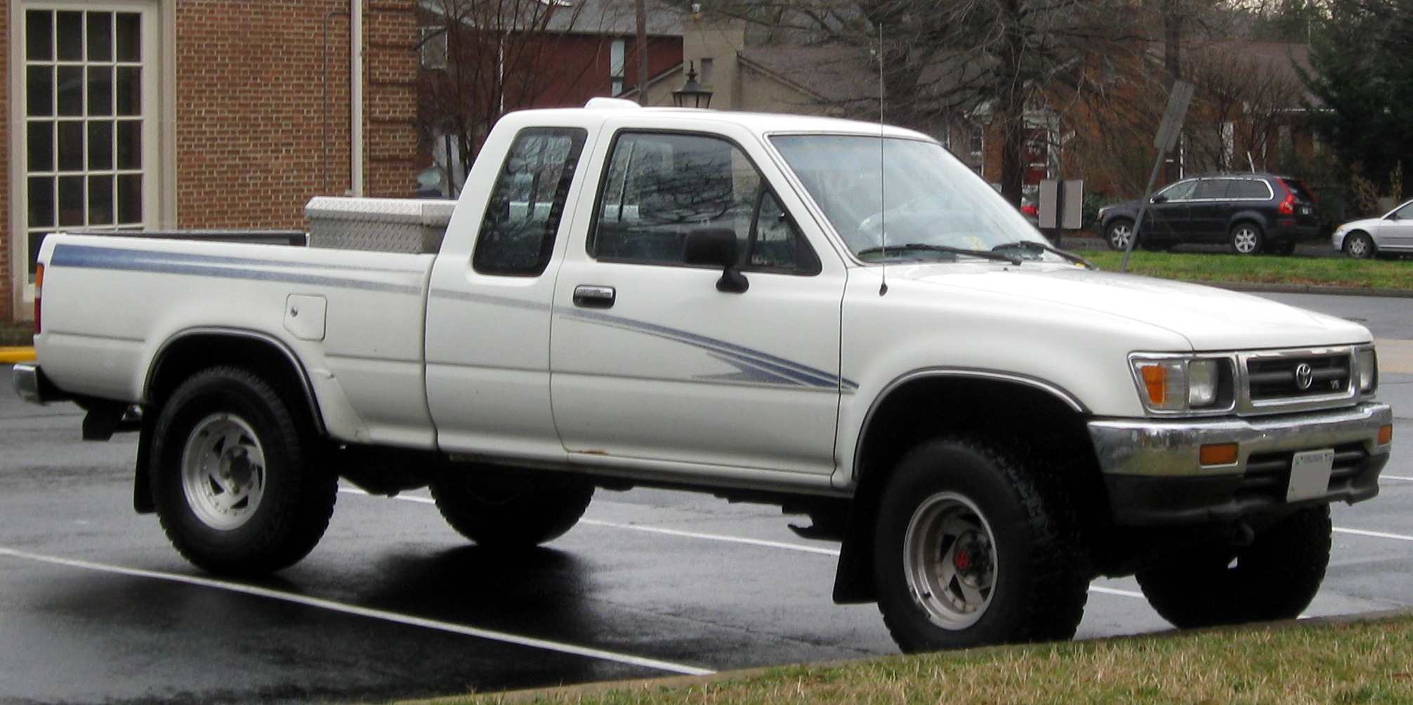 1994-1995 Toyota Pickup photographed in Washington, D.C., USA.